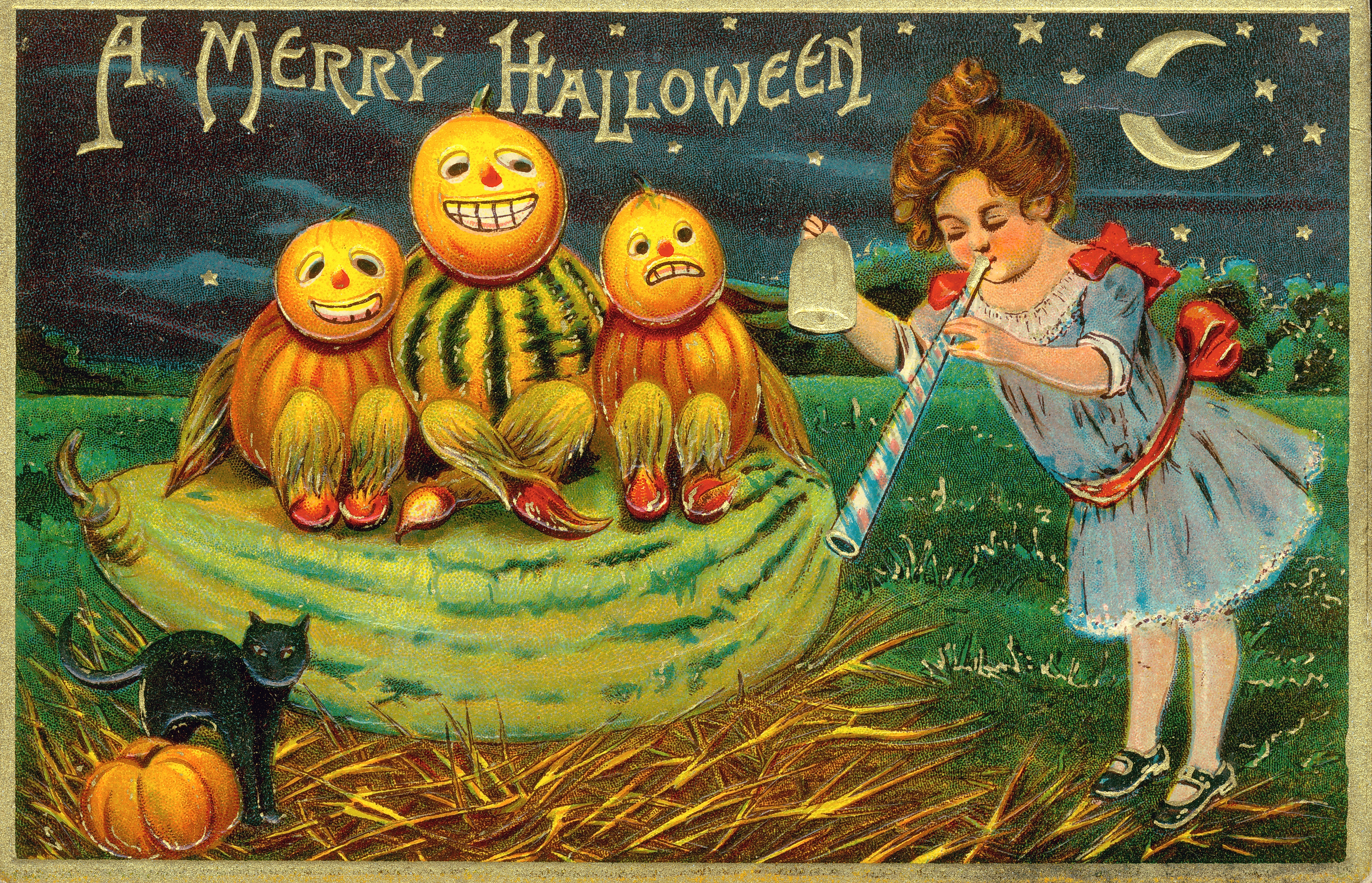 Title: "A Merry Halloween." (Girl blowing a horn with three Jack-o-Lanterns).